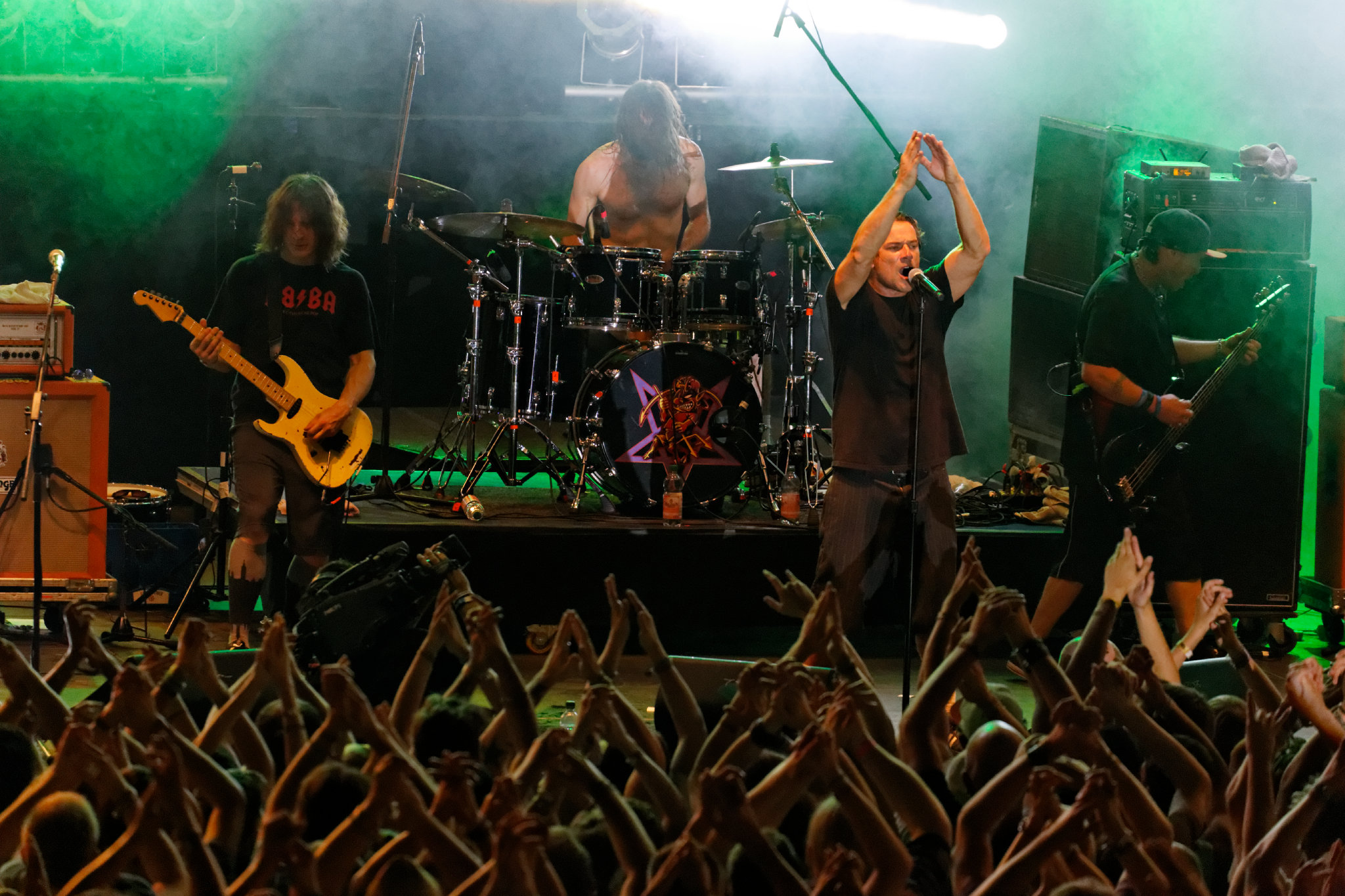 Ugly Kid Joe playing at the "Eier mit Speck" festival in Viersen, germany, 2013